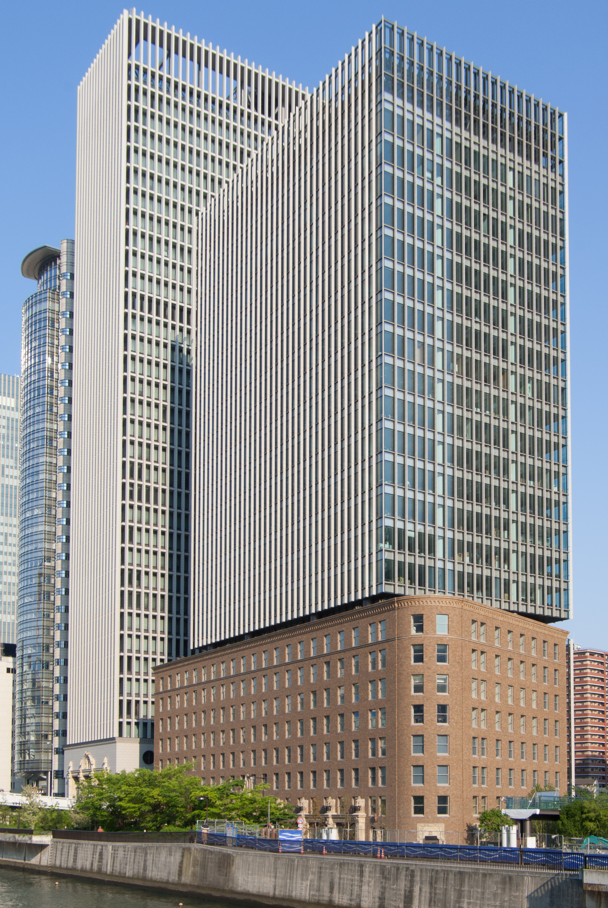 Photograph of the northwest view of Daibiru Honkan Building in Kita-ku, Osaka, Osaka Prefecture, Japan.